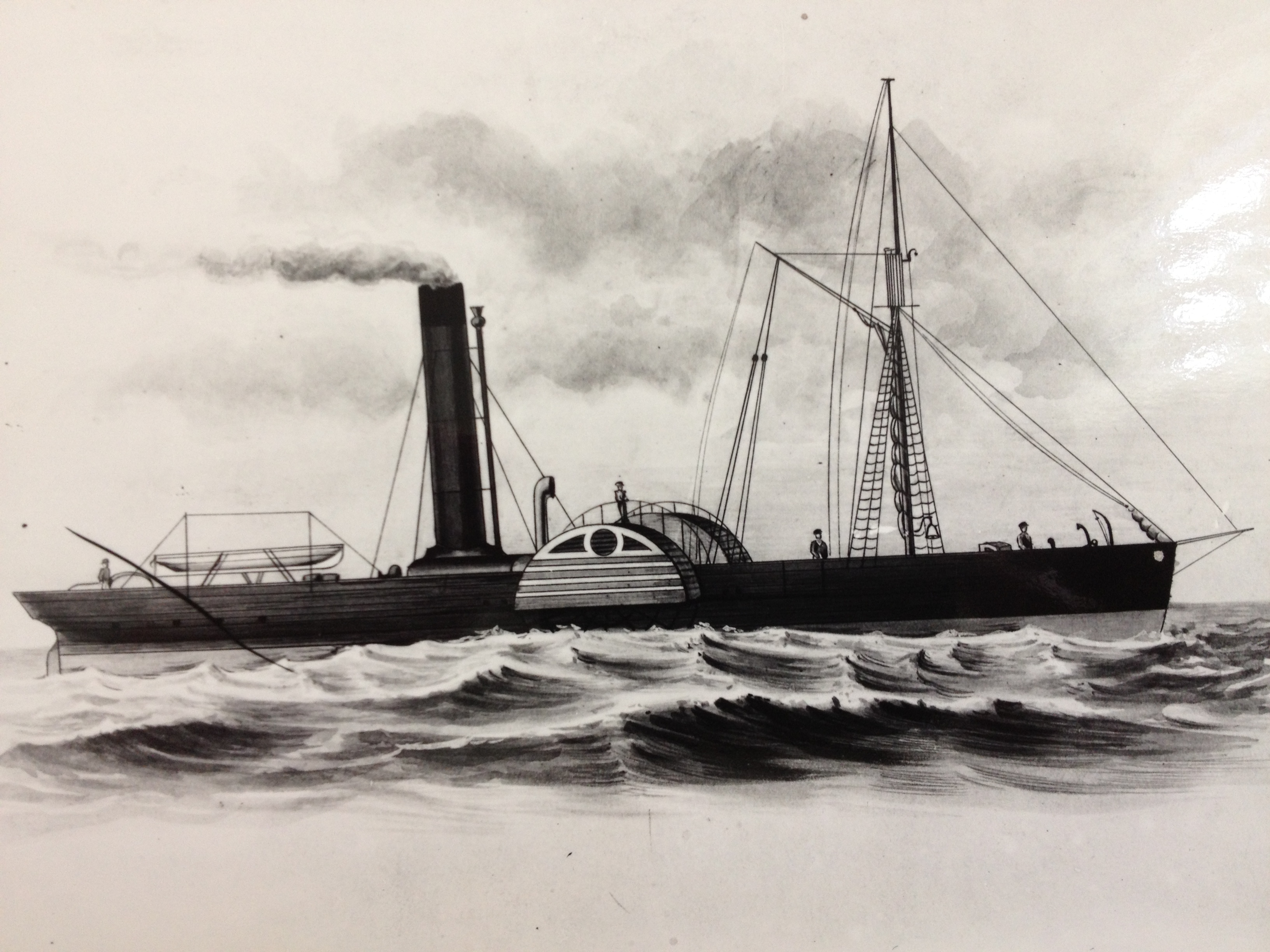 Picture depicting Isle of Man Steam Packet Company paddle-steamer Mona.